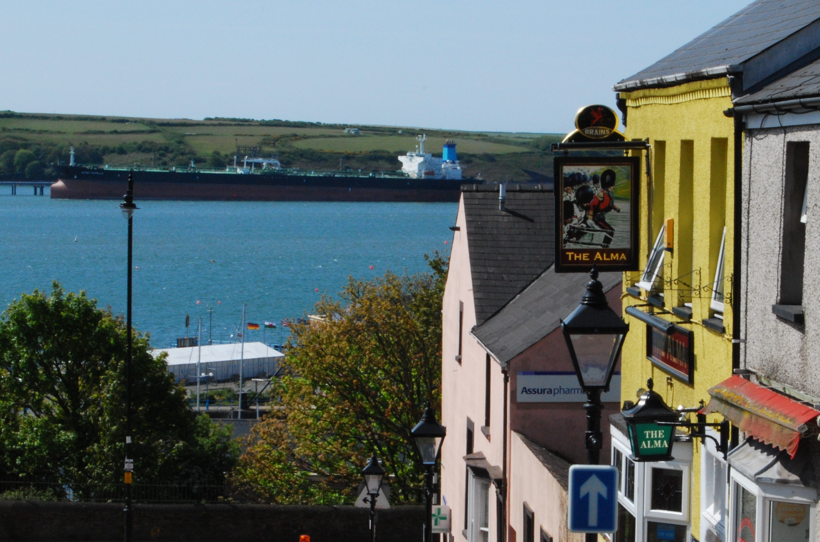 View south across Milford Haven.